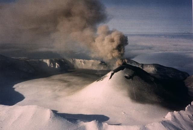 Intermittent modest explosive eruptions took place from the cinder cone in Akutan caldera January 31-March 2 and June 22-24, 1987. This February 11 photo from the SE shows an ash plume rising from a crater at the top of the cinder cone.